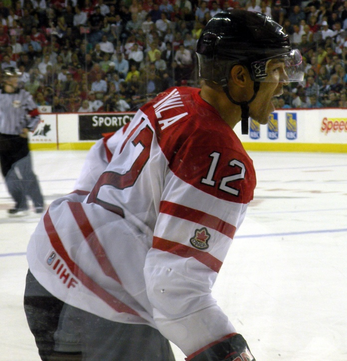 Ice hockey forward Jarome Iginla in action during Hockey Canada's Red-White game at pre-Olympic camp in Calgary, Alberta.